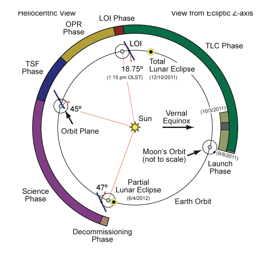 GRAIL Moon spacecraft mission overview This figure shows a timeline of the GRAIL mission phases from launch through the various mission phases. Since the relative position of Earth and the moon change over this entire period, it is simplest to illustrate the events relative to the sun, or heliocentric view.